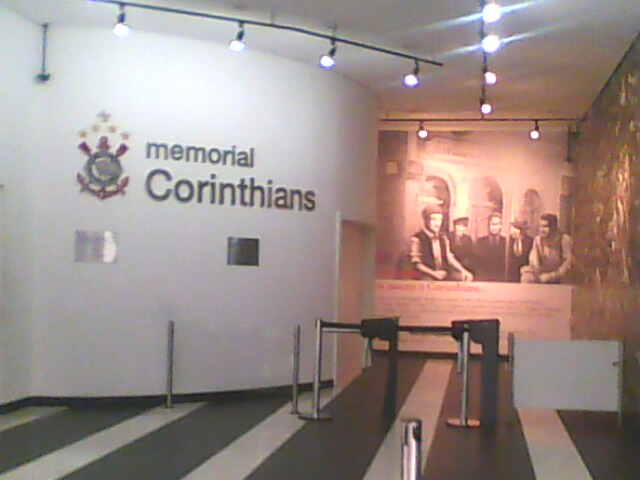 Entry of Memorial Sport Club Corinthians Paulista